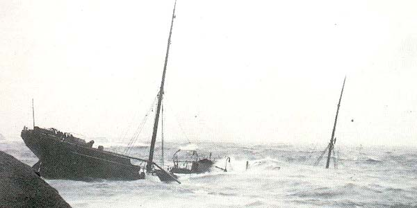 The SS Maori aground below the Karbonkelberg in 1909. Cape Peninsula.